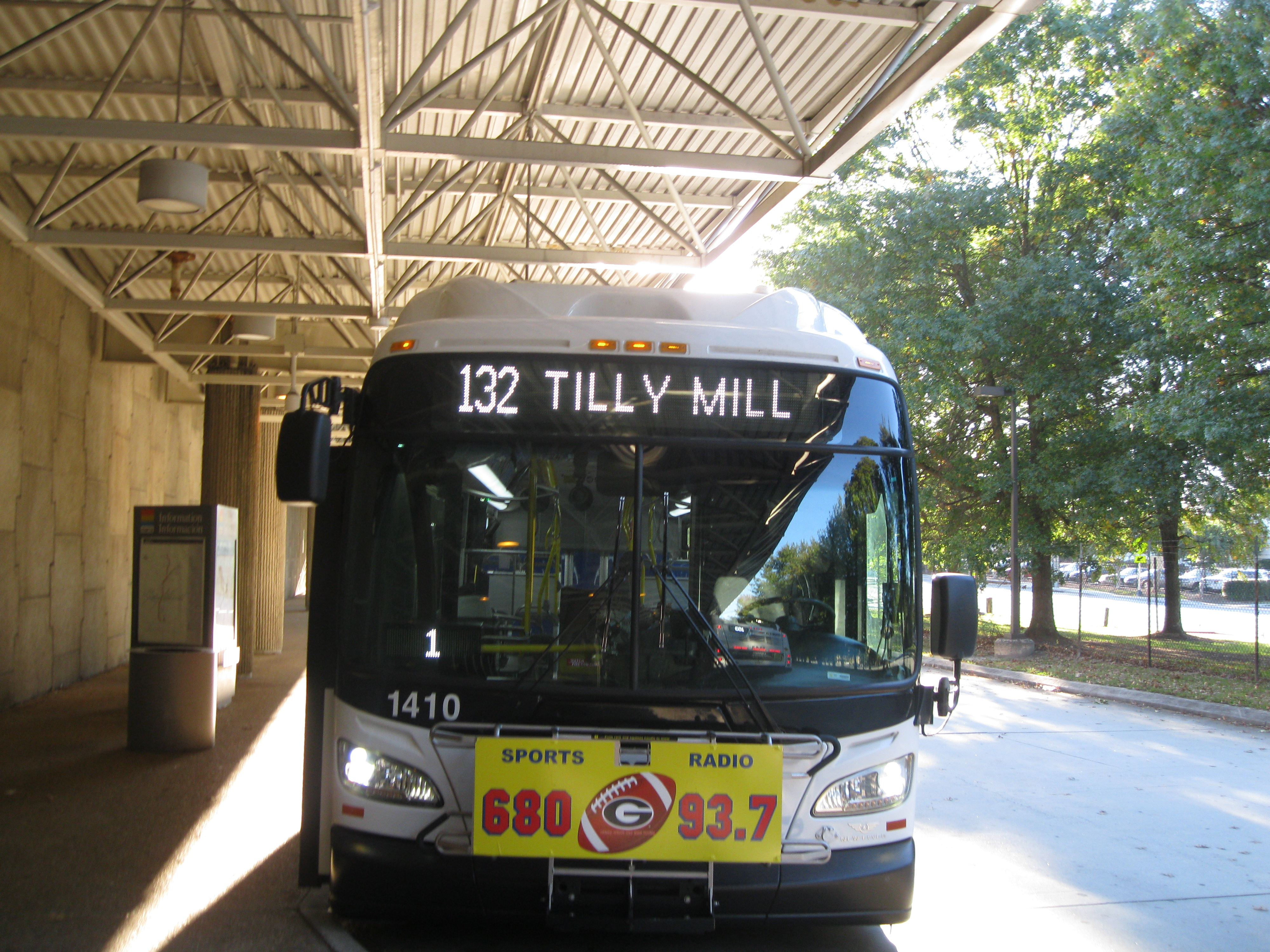 2013 MARTA Xcelsior 1410 on the 132 Bus at Chamblee Station.